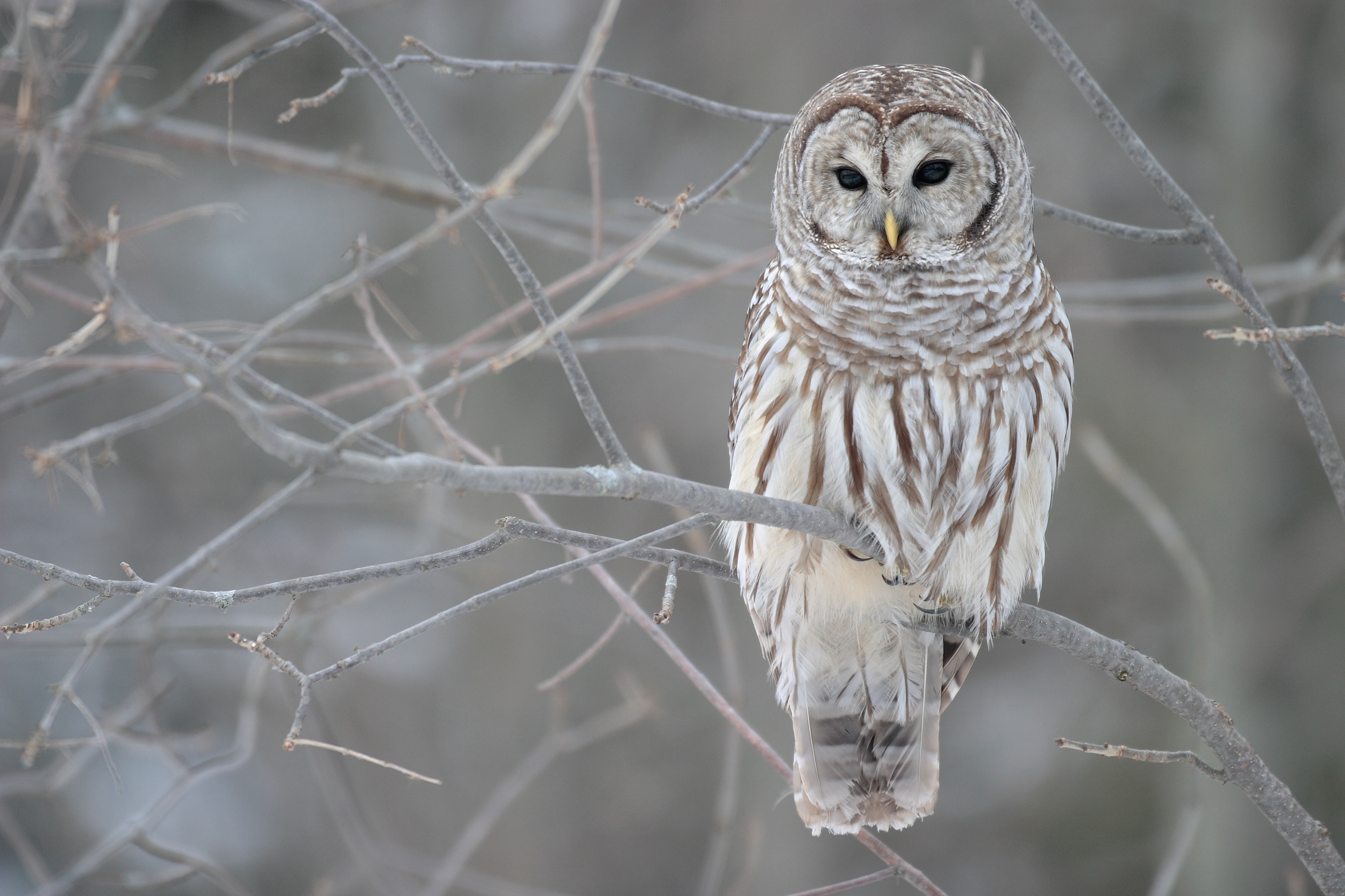 Barred Owl (Strix varia) – Whitby, Ontario (Canada)